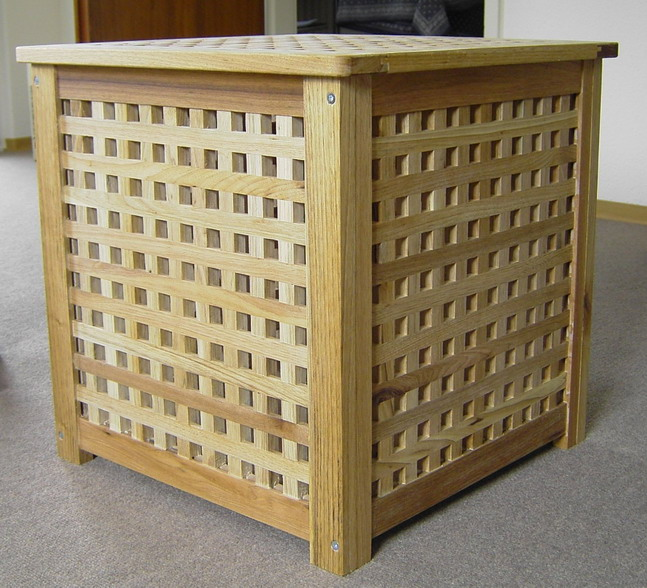 Beschreibung: Möbelstück - Ikea HOL Quelle: - eigene Seite Fotograf: CrazyD, 28. Juli 2005 Lizenzstatus: GNU FDL Description: furniture - Ikea HOL - my own page Photographer: CrazyD, 28 July 2005 Licence: GNU FDL